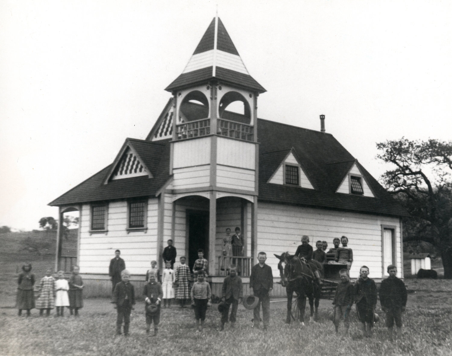 Photo of the Timber School in the 1890's.